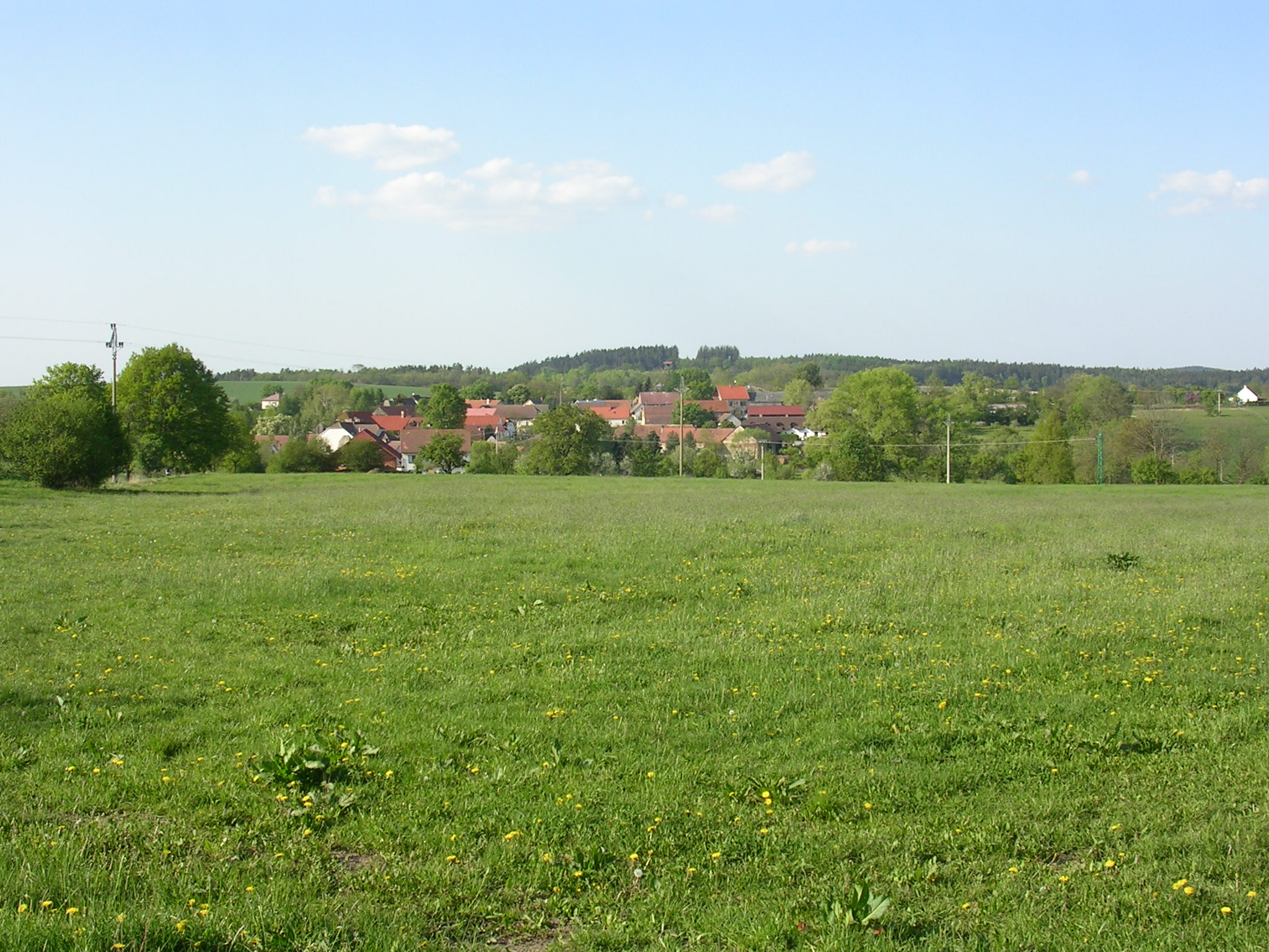 Struhařov-Bořeňovice, Benešov District, Central Bohemian Region, the Czech Republic.